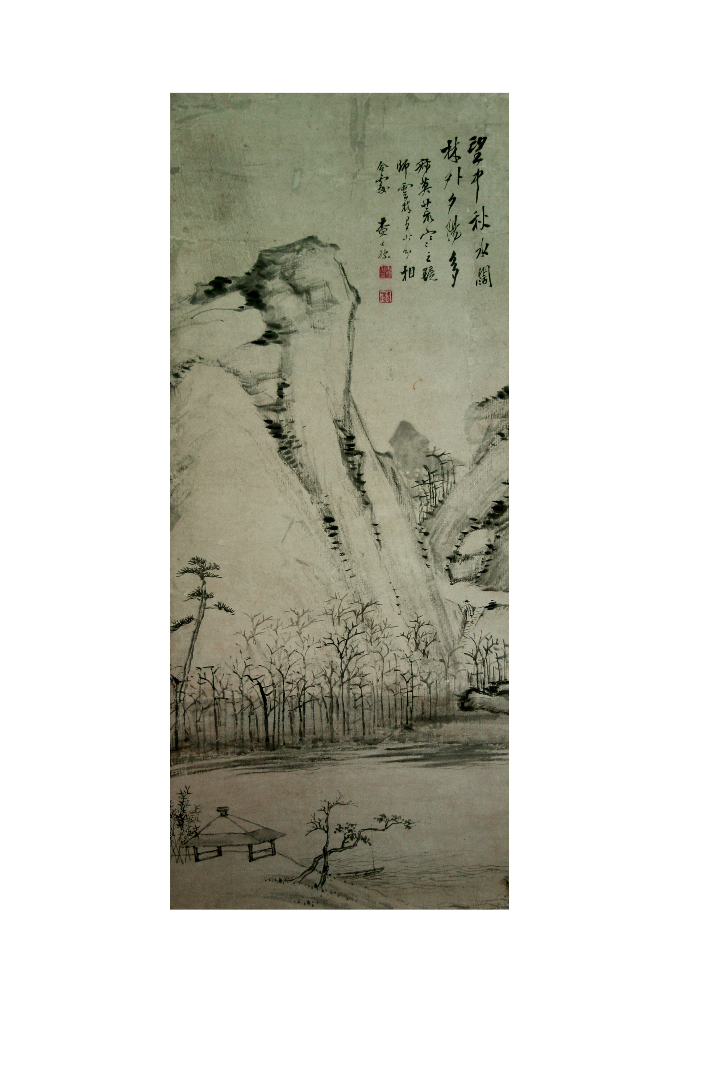 Zha Shibiao painting from the Nantoyōsō Collection, Japan